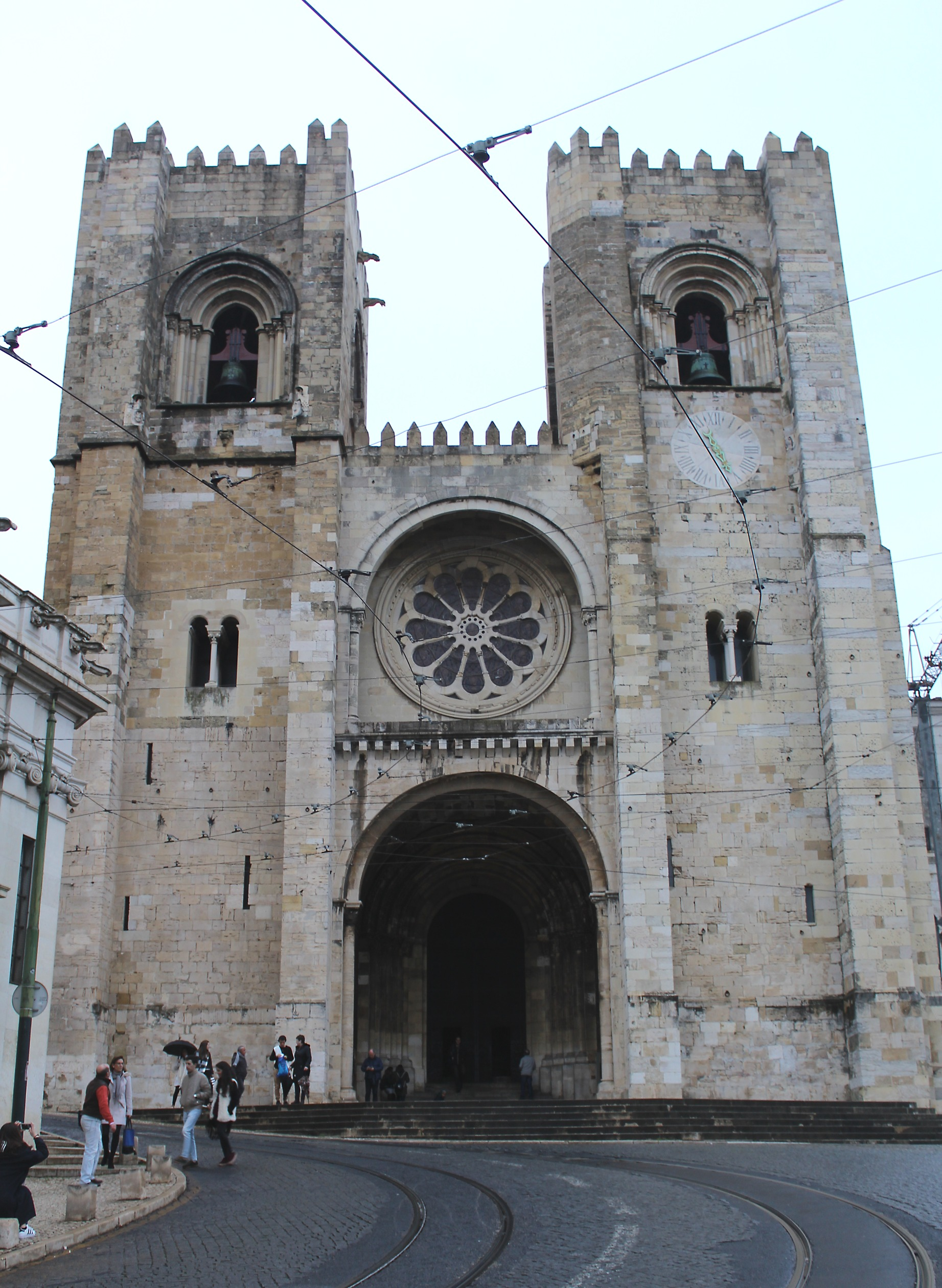 Lisbon, the Catedral Sé Patriarcal